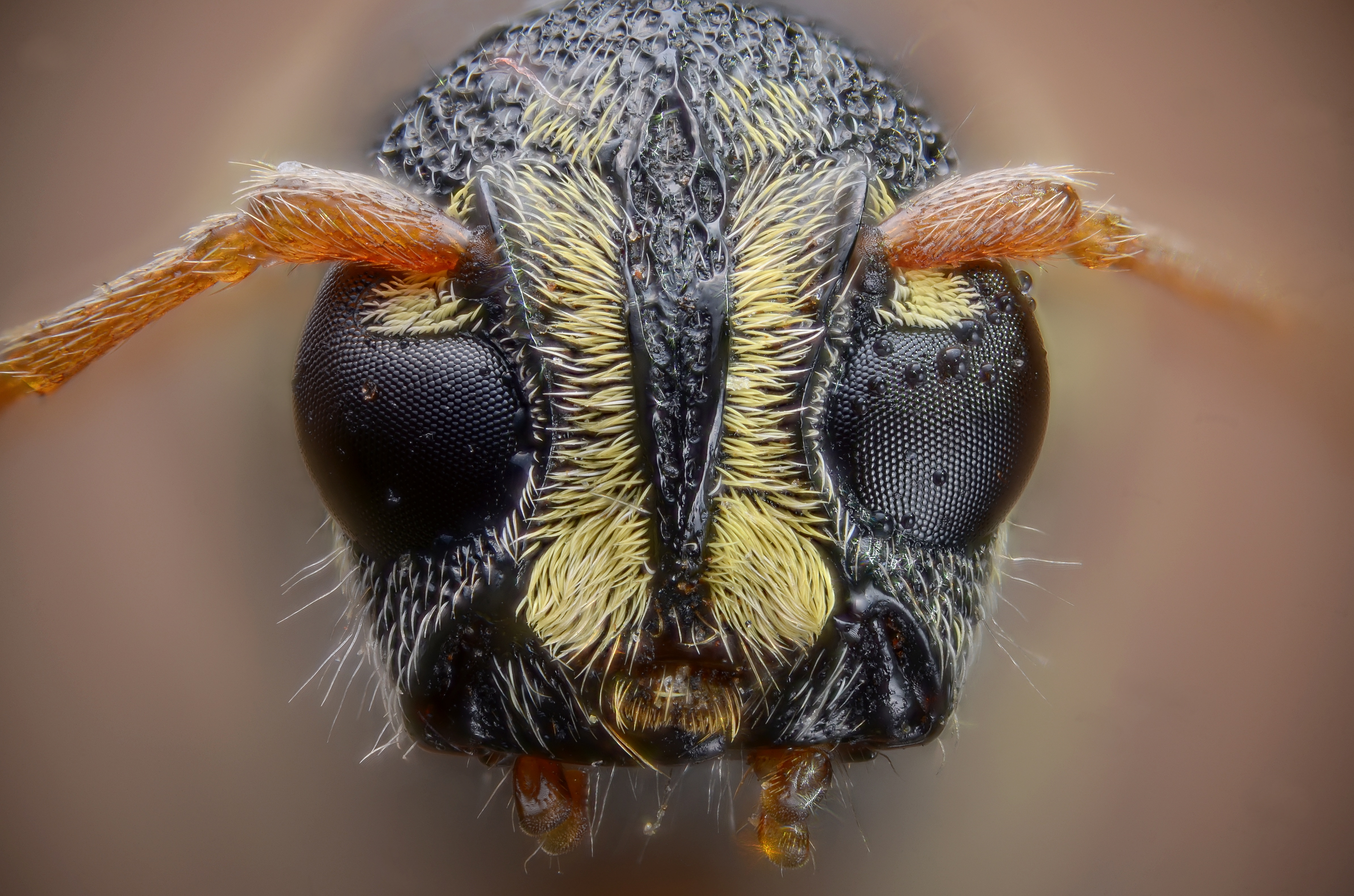 Focus stack of 55 pictures, Nikon achromatic microscope objective 10x directly on the camera body (+ 30mm length adapter). Bad lighting from a single flash with diffuser on the right + reflector on the left.